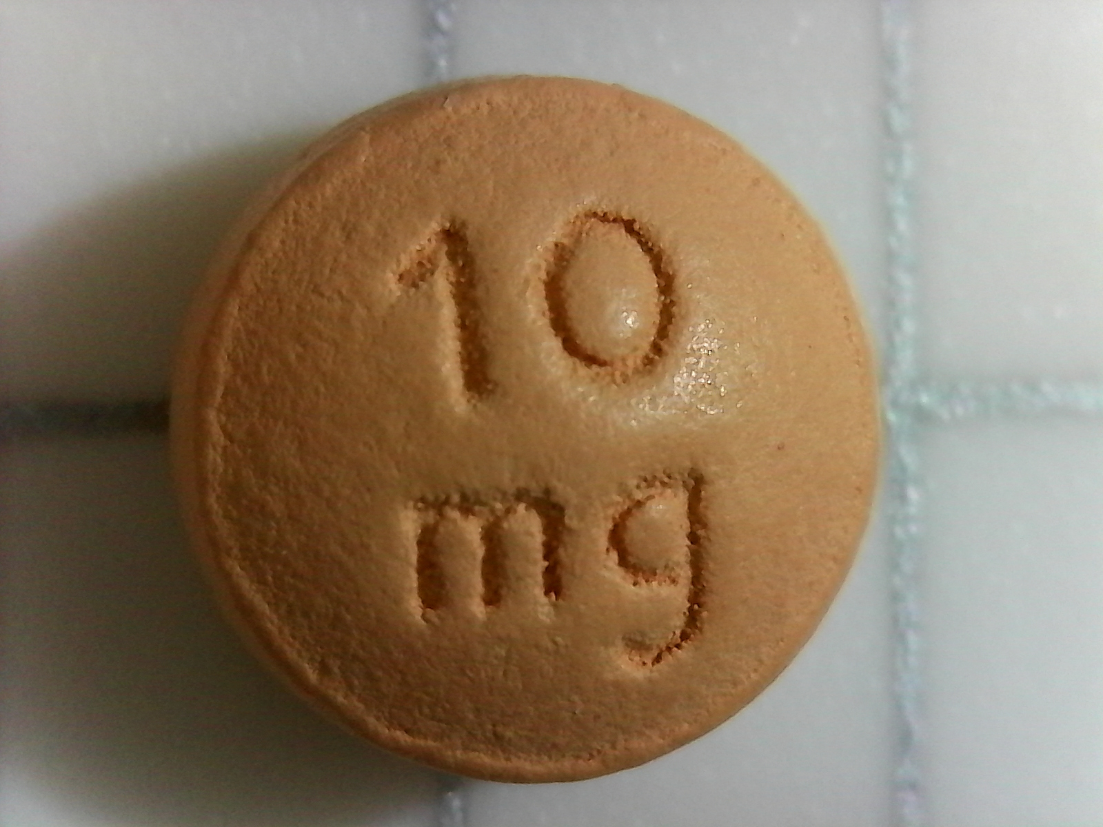 MST Continus branded morphine 10mg, "10 mg" facing up; the squares in the image represent one half centimeter, so the pill is around 0.75cm. This pill was taken out of a blister pack that was purchased legally, there is next to no chance that it is a counterfeit.